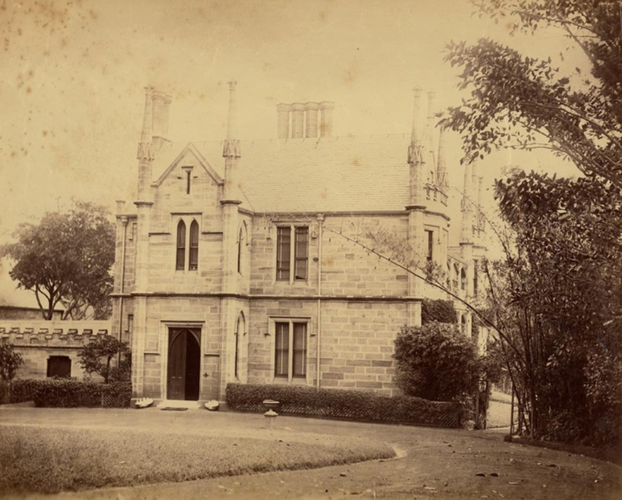 Gladswood House, Double Bay, NSW, circa 1870